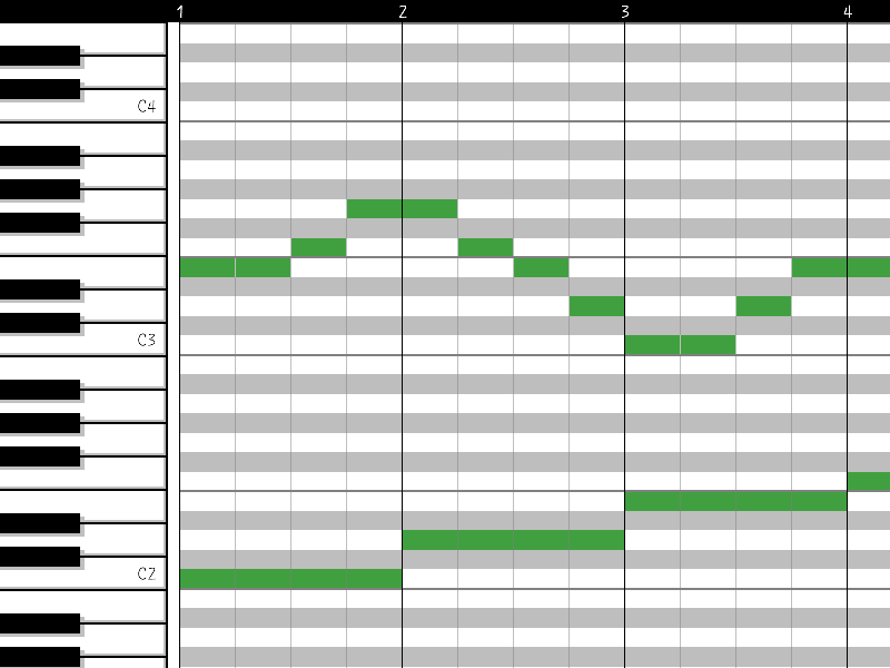 Computer music piano roll of Beethoven's Ode to Joy.